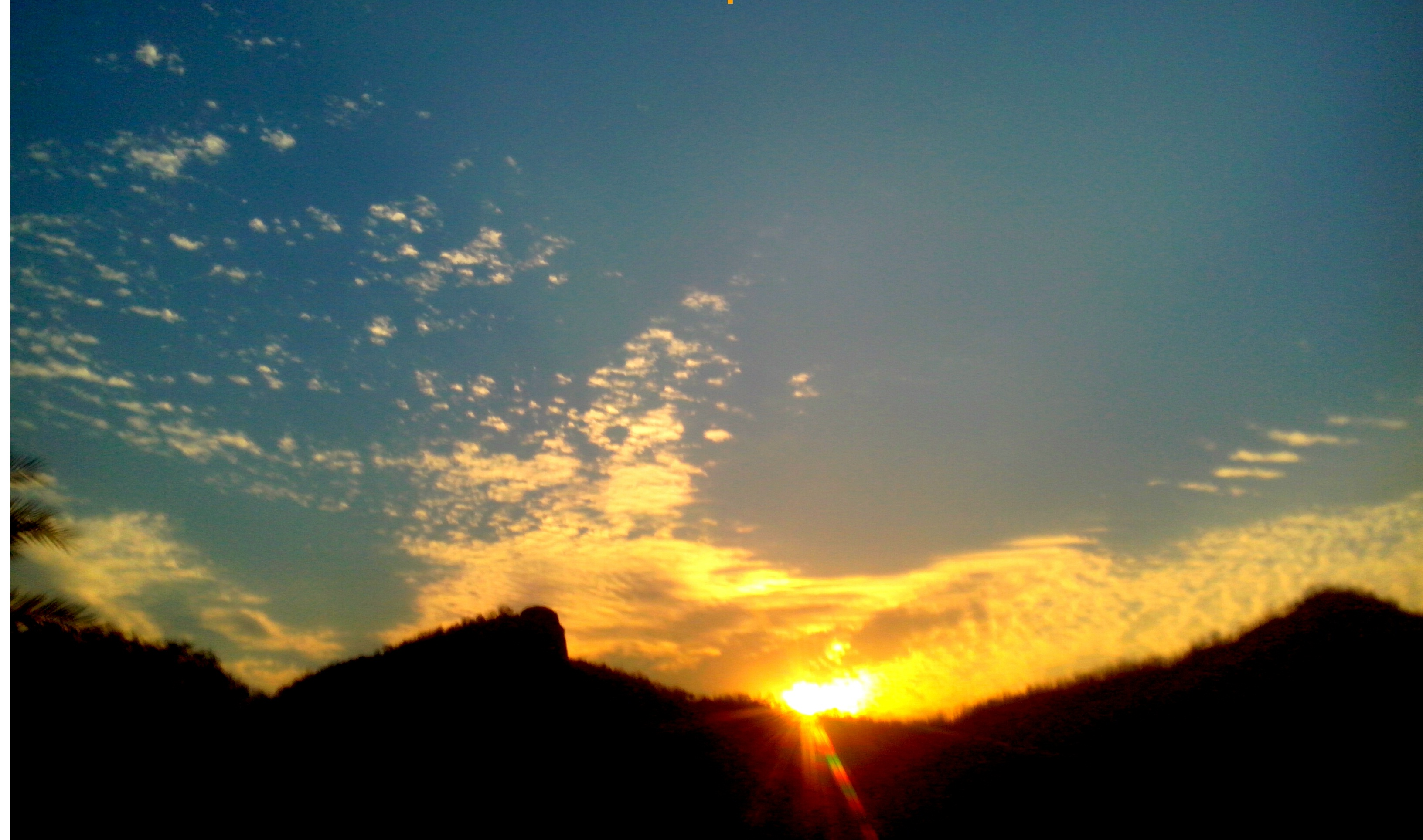 Hill's of Brahmanpada